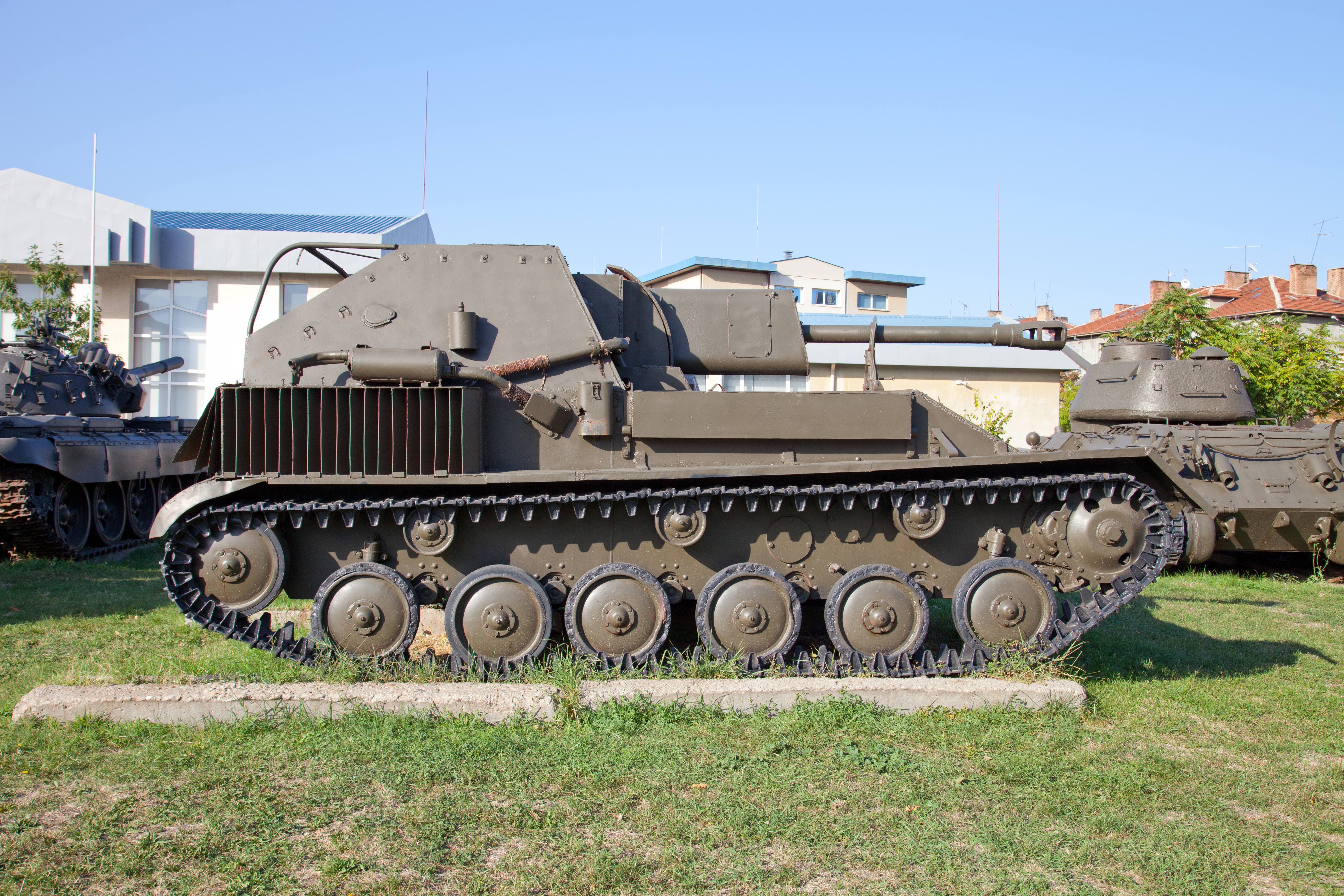 National Museum of Military History (Bulgaria)